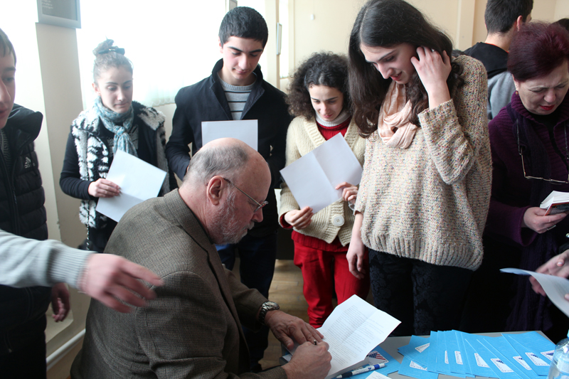 Tim Cahill (seated) signs autographs for young fans in Rustavi, Georgia.